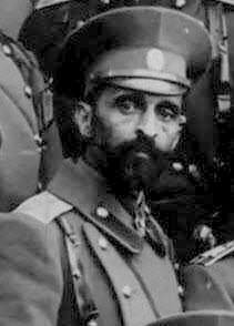 Georgian Colonel and future General Alexander Chkheidze in 1914